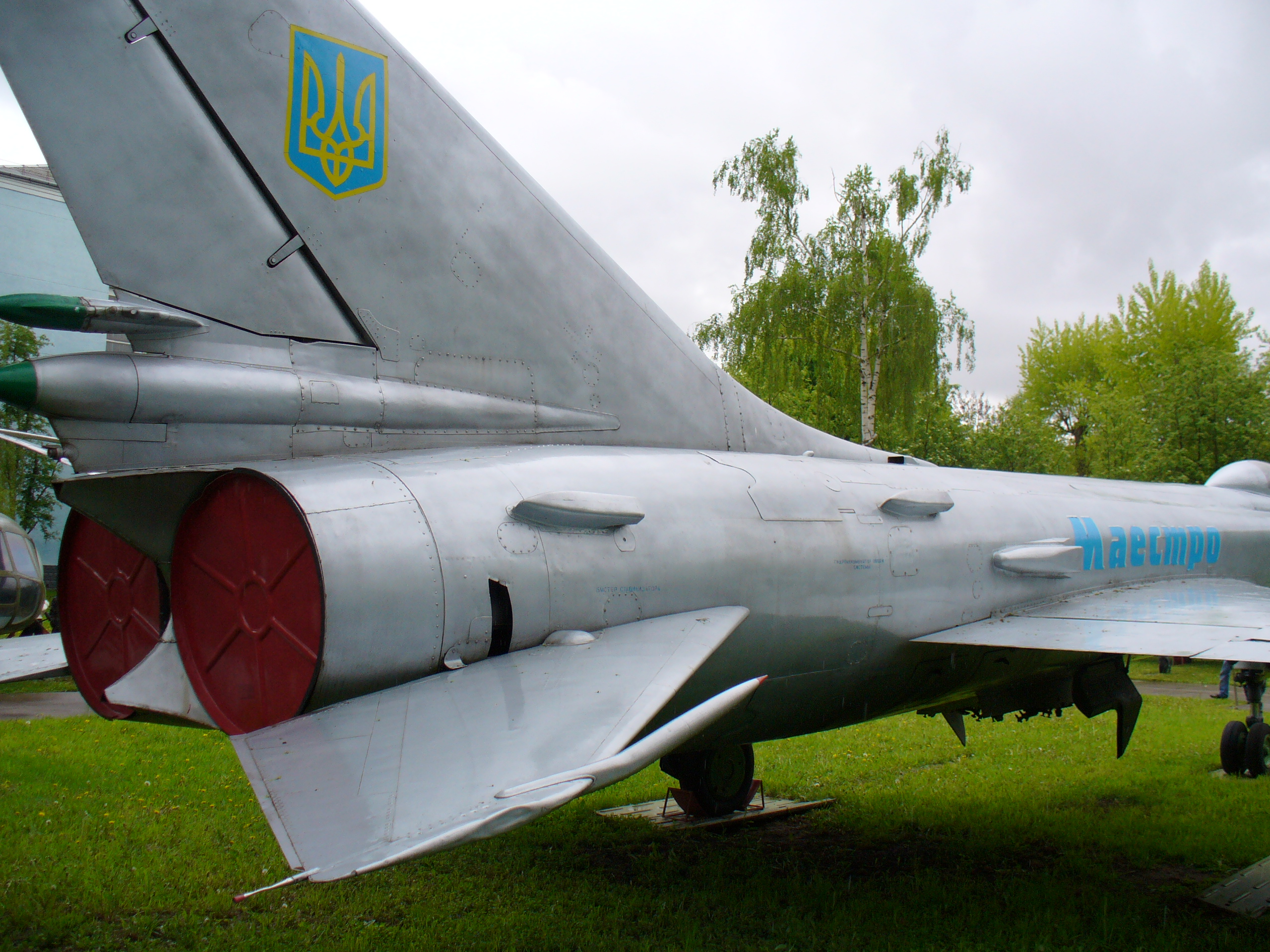 The Sukhoi Su-15TM (NATO reporting name "Flagon-F"), a Soviet interceptor aircraft. Has personal names "Leonid Bykov" and "Maestro" in memory of the Soviet actor Leonid Bykov. Ukrainian Air Force Museum in Vinnitsa.